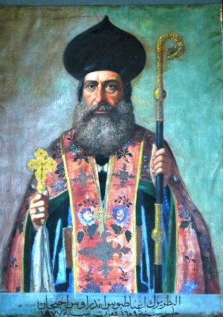 potrait of Ignatius Andrew Akijan